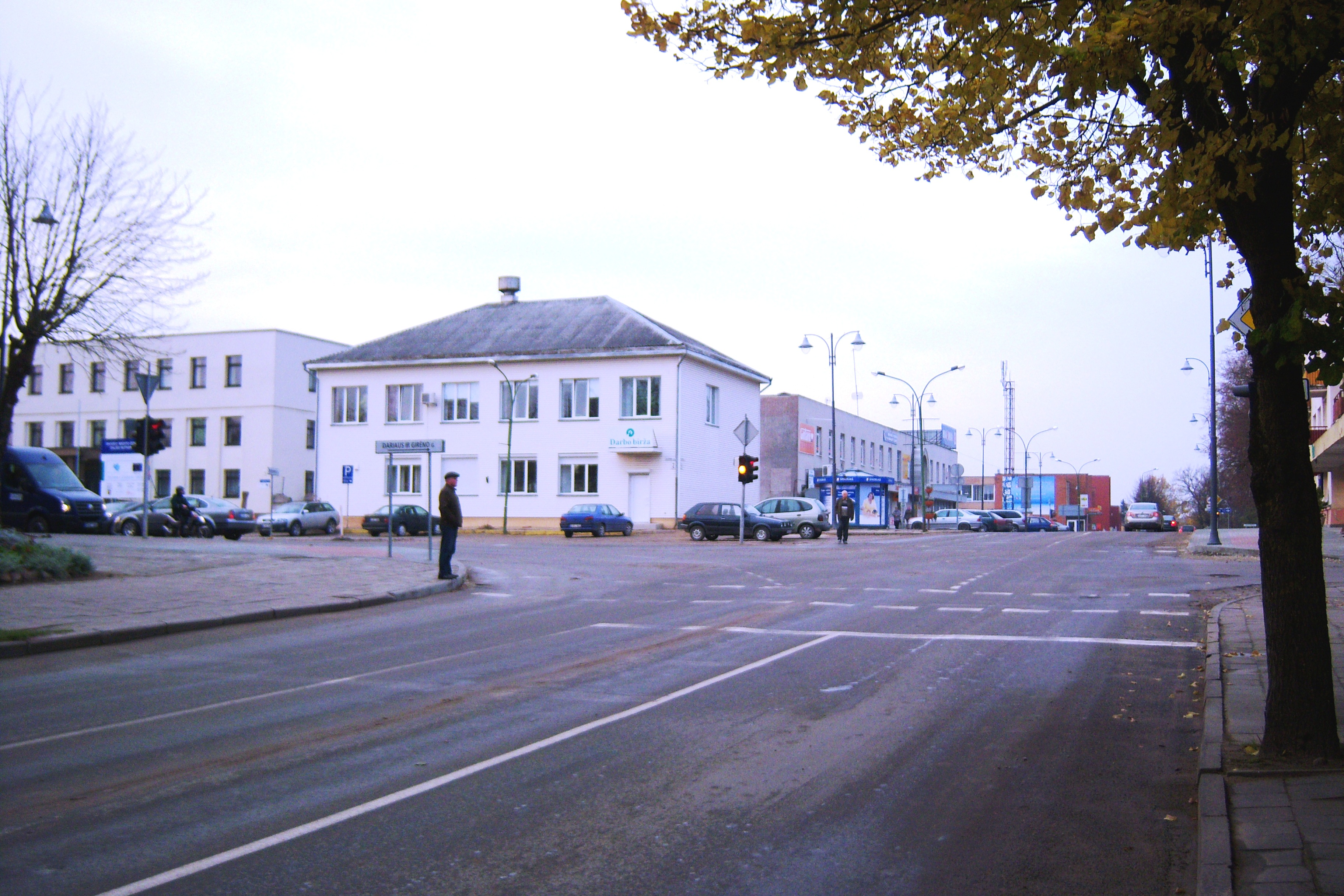 Skuodas, center, Lithuania